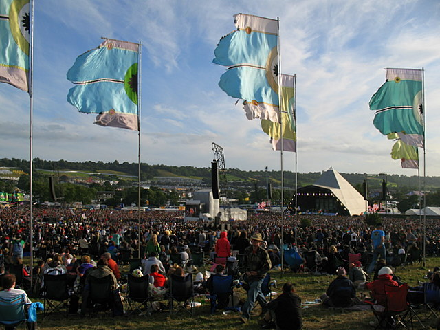 The Pyramid Stage - Glastonbury 2008 Early evening on a clear, breezy day of a virtually rainless Glastonbury Festival. The view is down across a massive crowd towards the main 'pyramid' stage where Goldfrapp was playing. The high land in the background is Pennard Hill.